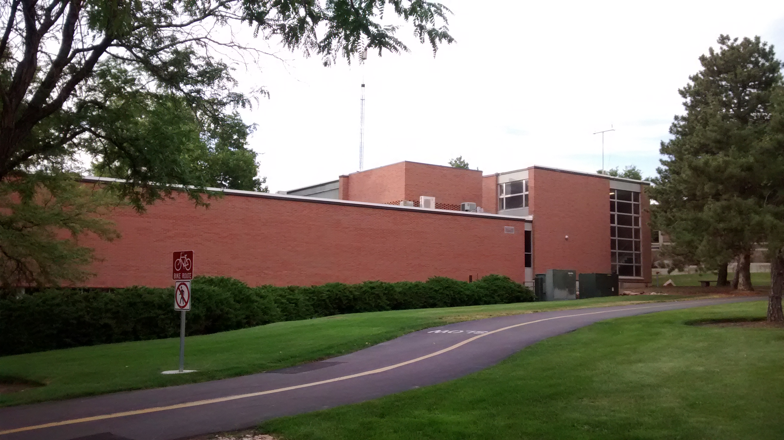 Orson Spencer Hall at the University of Utah.